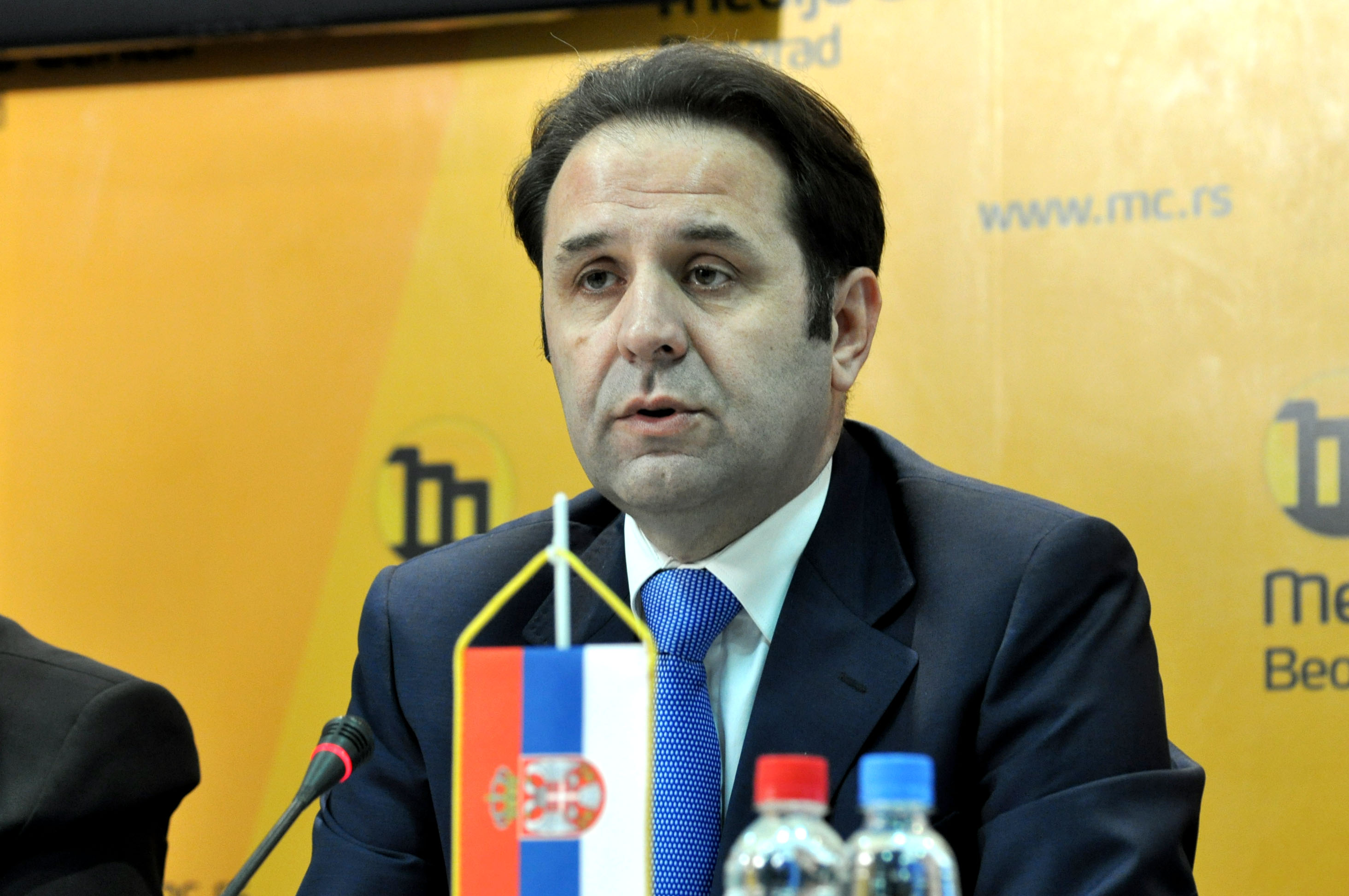 Rasim Ljajic